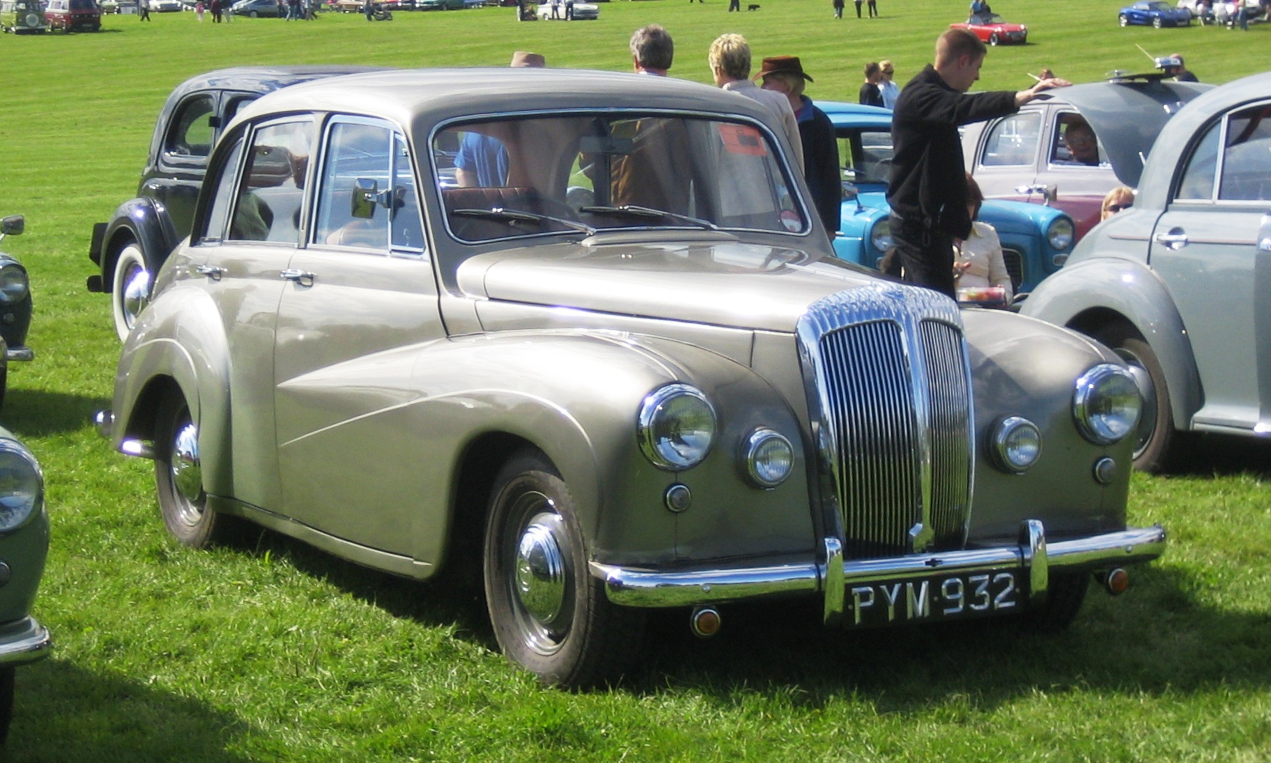 ca 1955 Daimler Conquest at Classic car Show in Hertfordshire